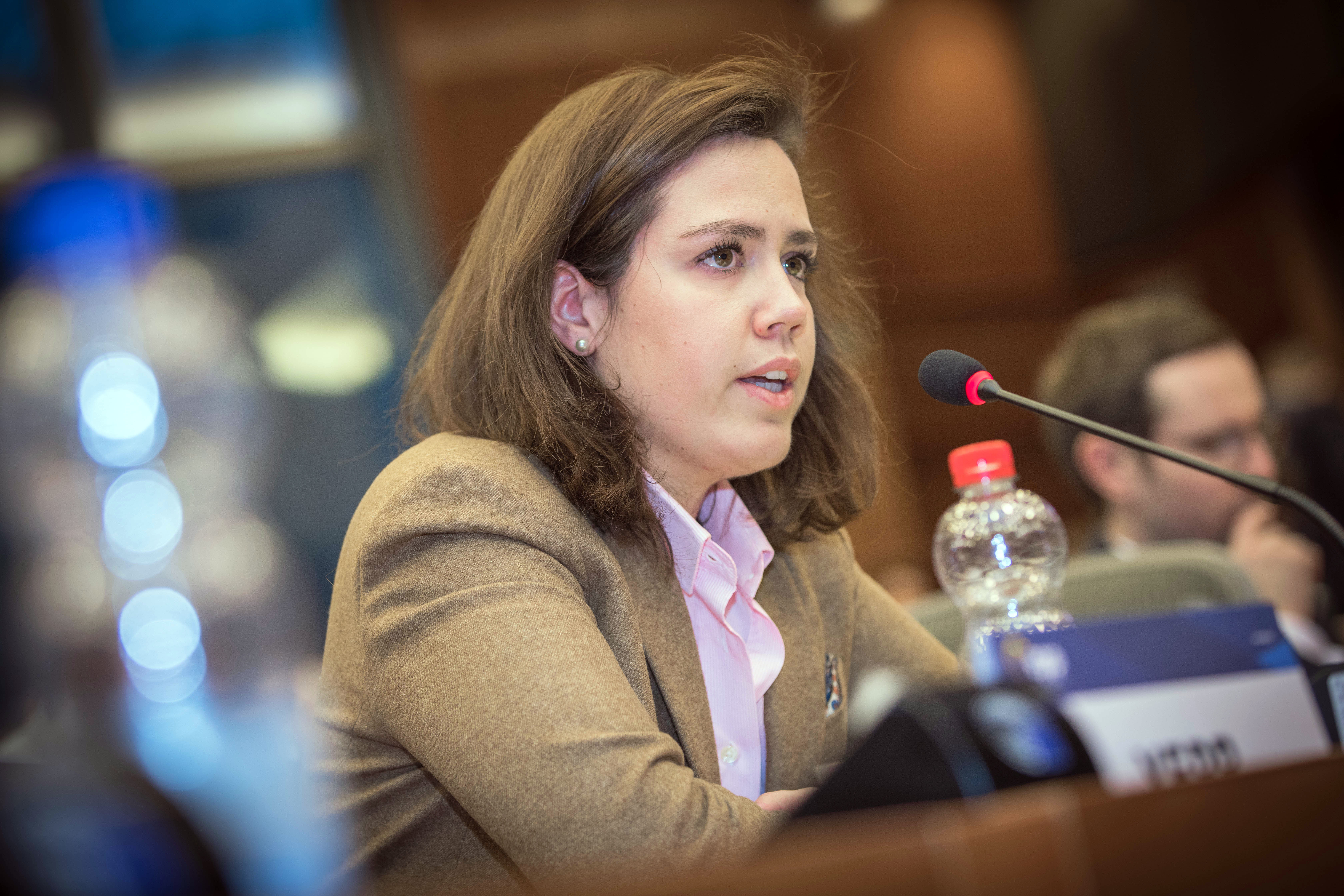 Lídia Pereira, YEPP president, at EPP Political Assembly, 4 February 2019